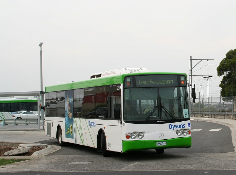 Dysons Mercedes O405/Volgren CR222L bus, Upfield VIC. March 2008.